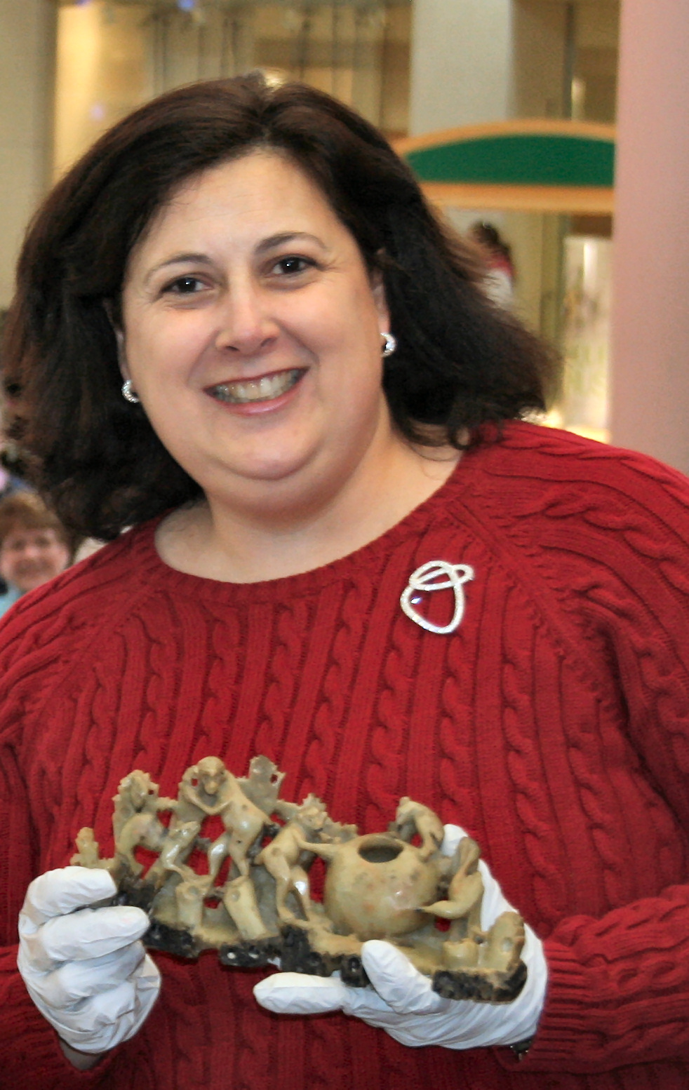 Dr. Lori Verderame headshot